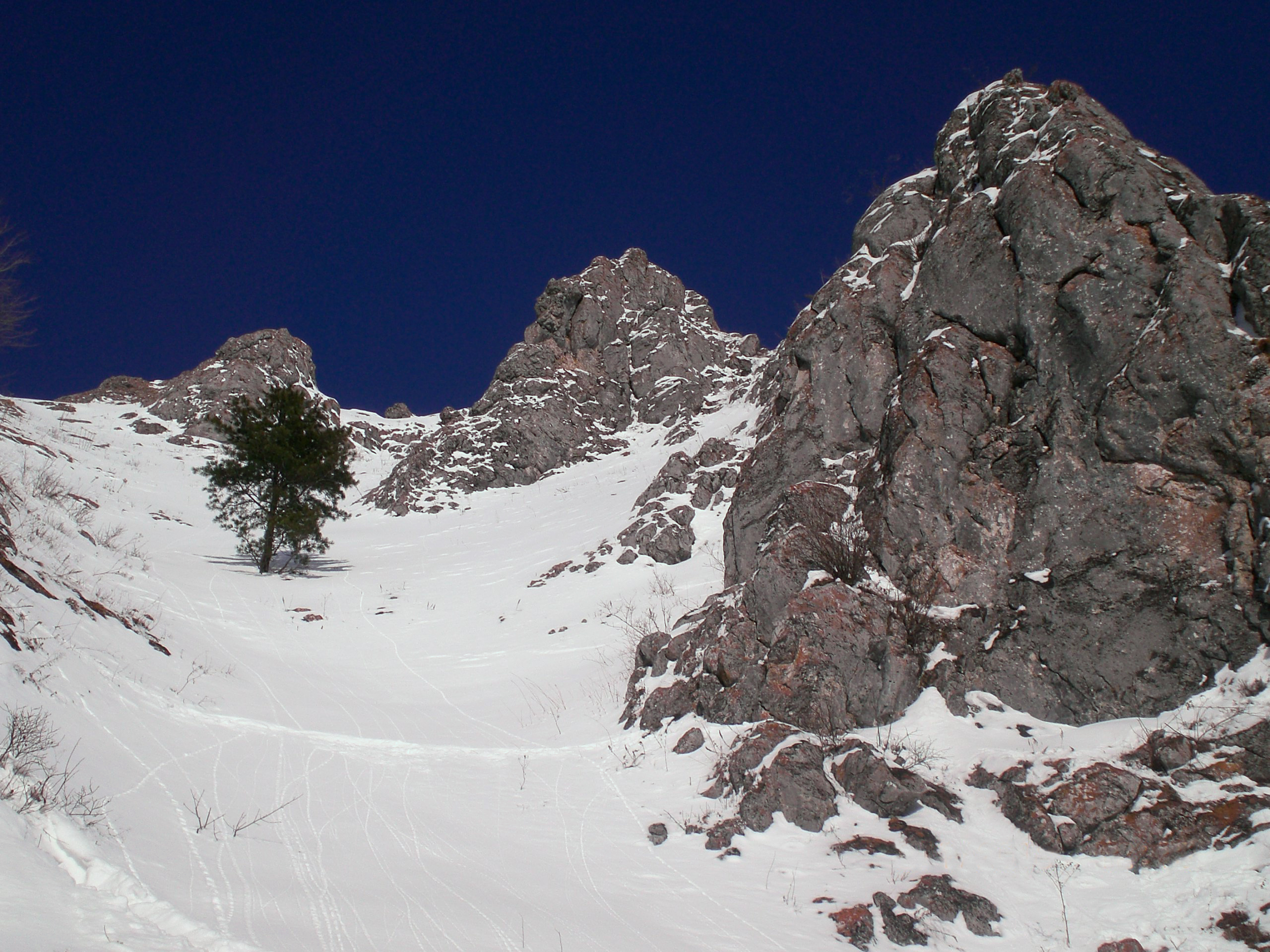 Sakharnaya mnt.